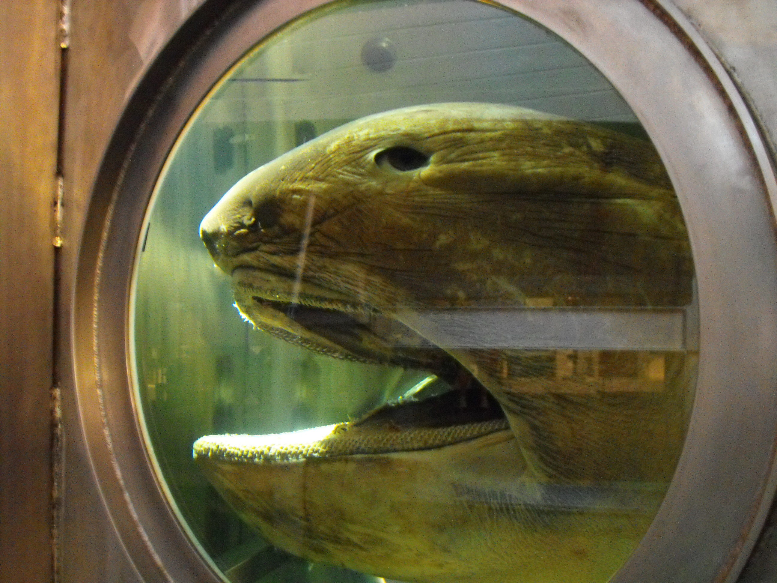 The head of a Megamouth shark. This specimen is preserved in a tank at the Western Australian Maritime Musem